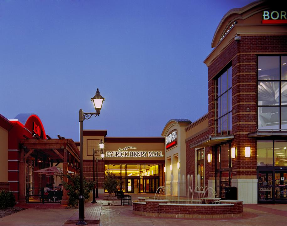 Red Robin & Borders Night Photo